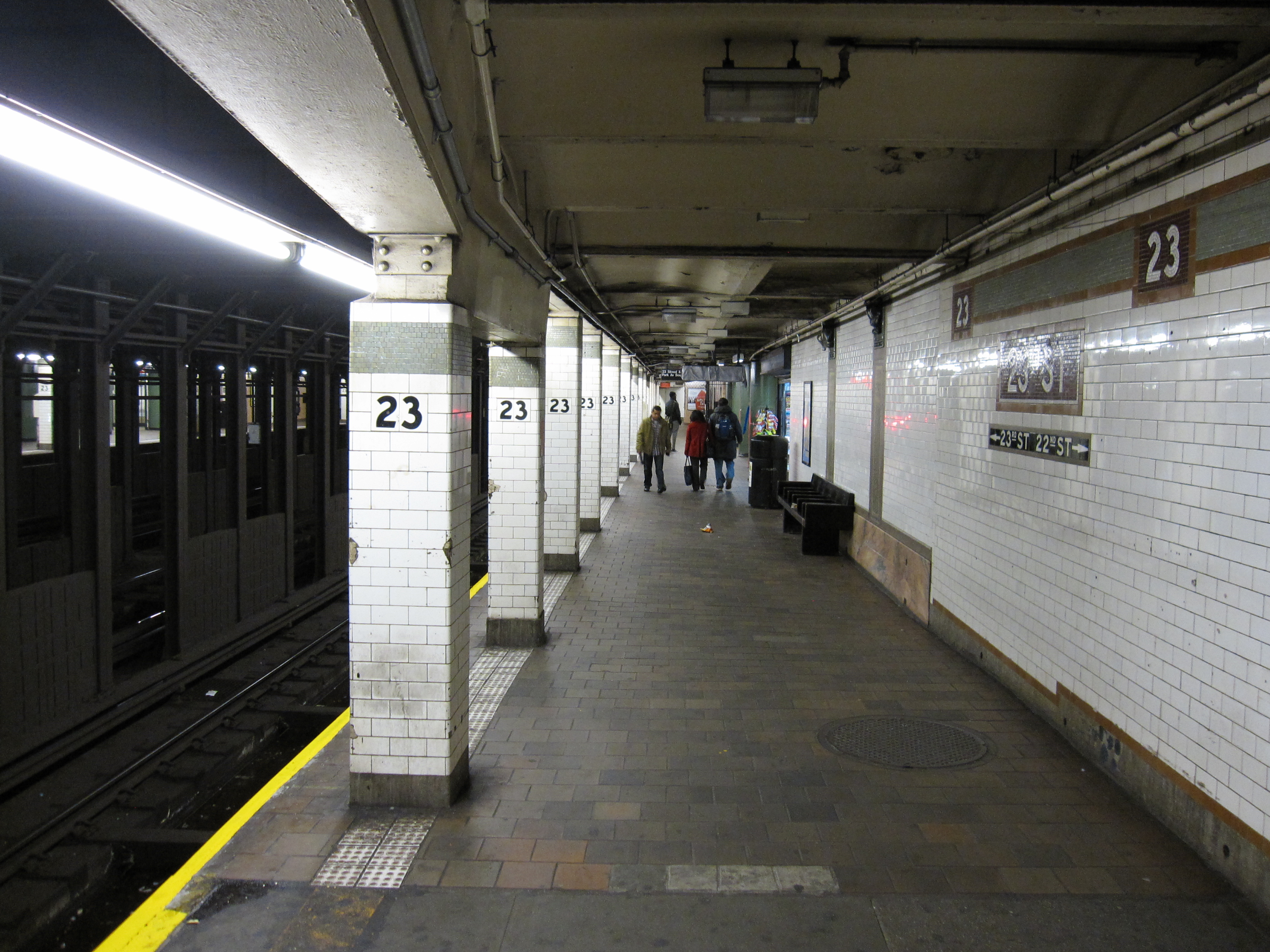 23rd Street (IRT Lexington Avenue Line)